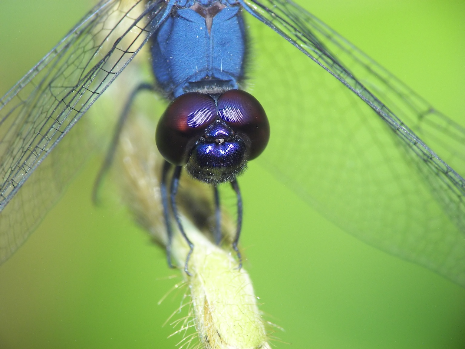 Saw near my home.